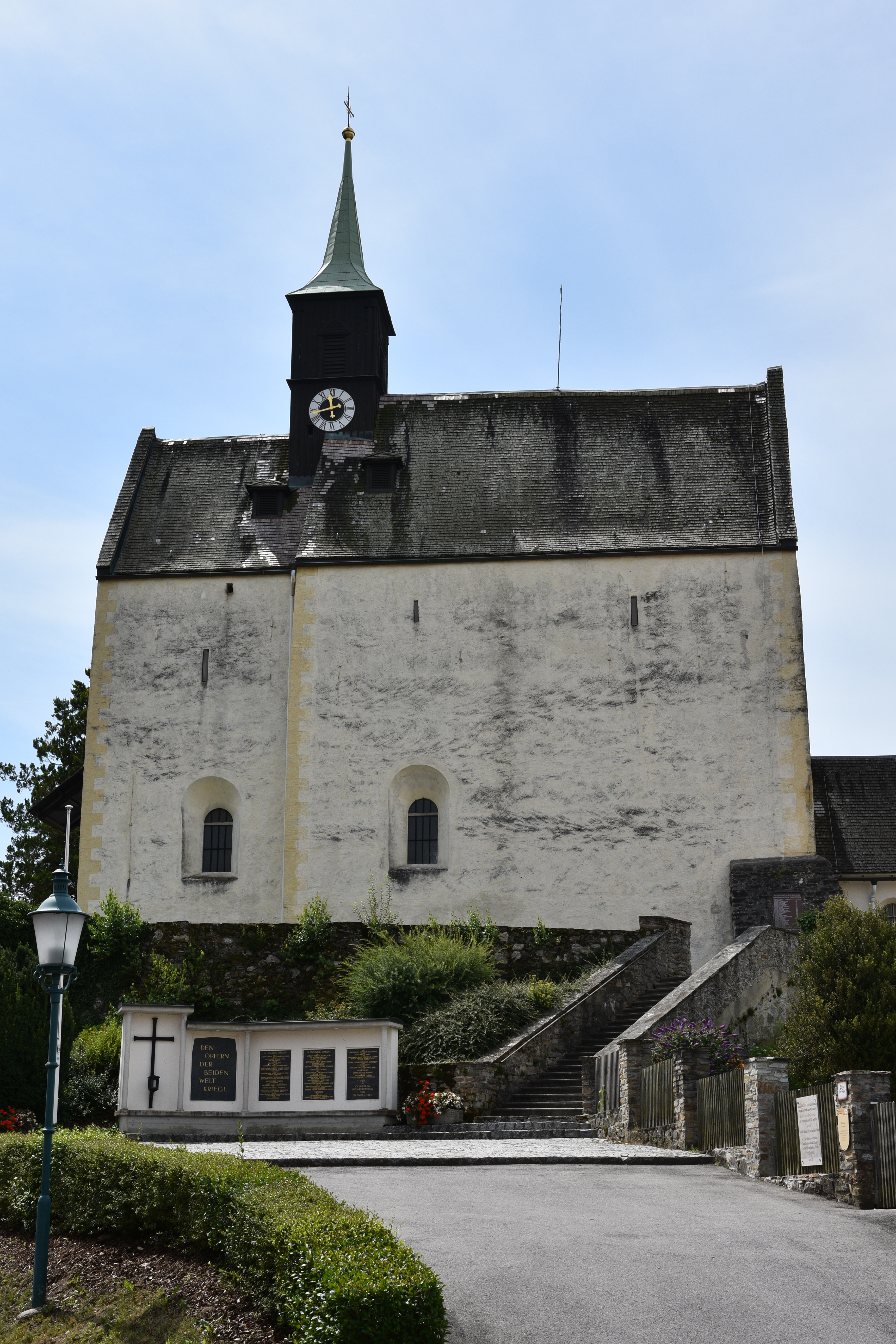 Church Bad Schönau